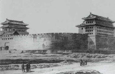 Andingmen taken at 1860